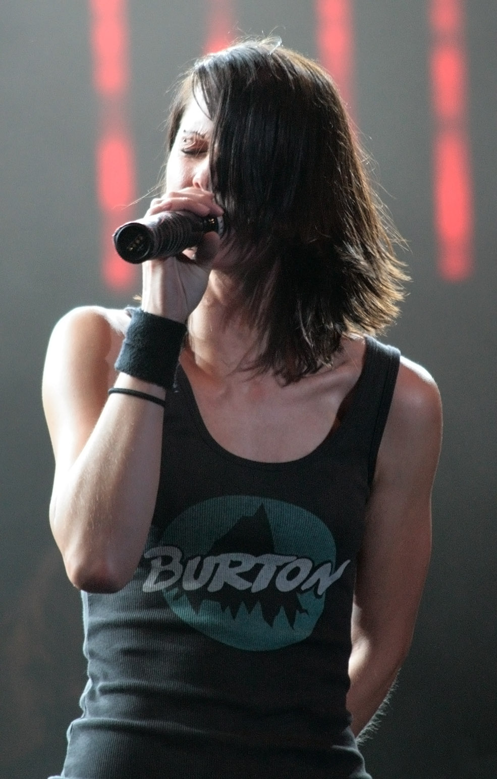 Christina Stürmer & Band at the Donauinselfest 2009